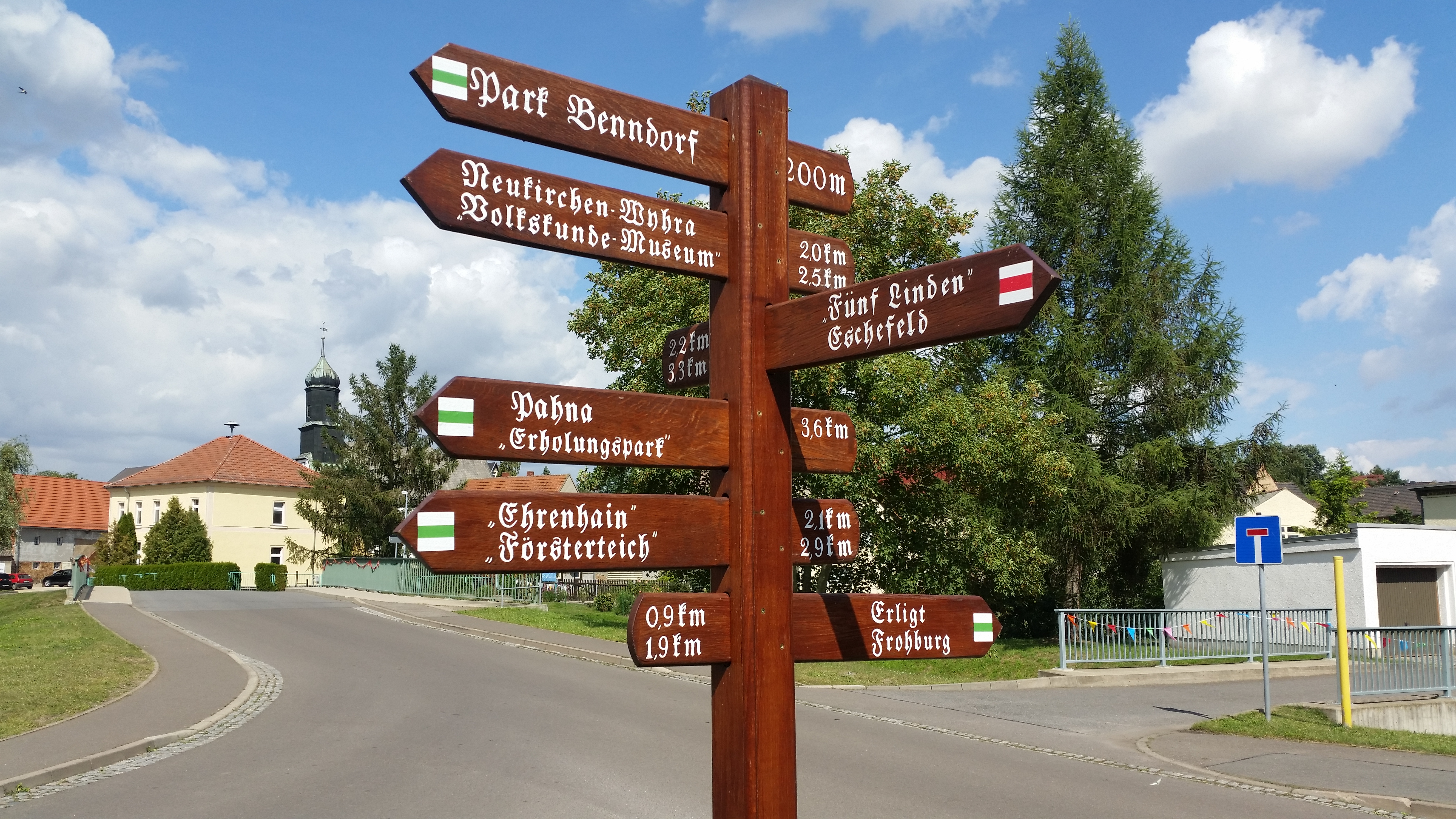 Hiking signpost in the village square Benndorf